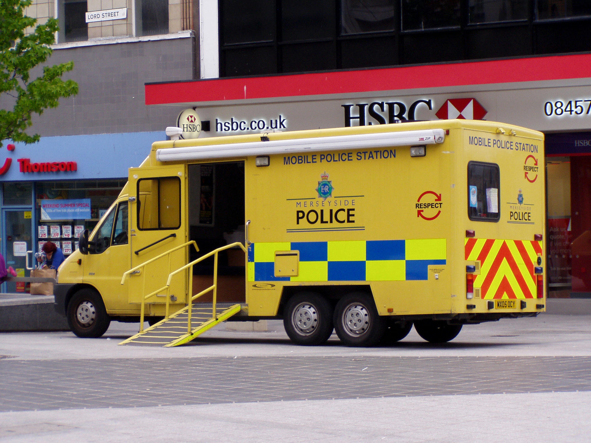 Merseyside Mobile Police station on Lord Street